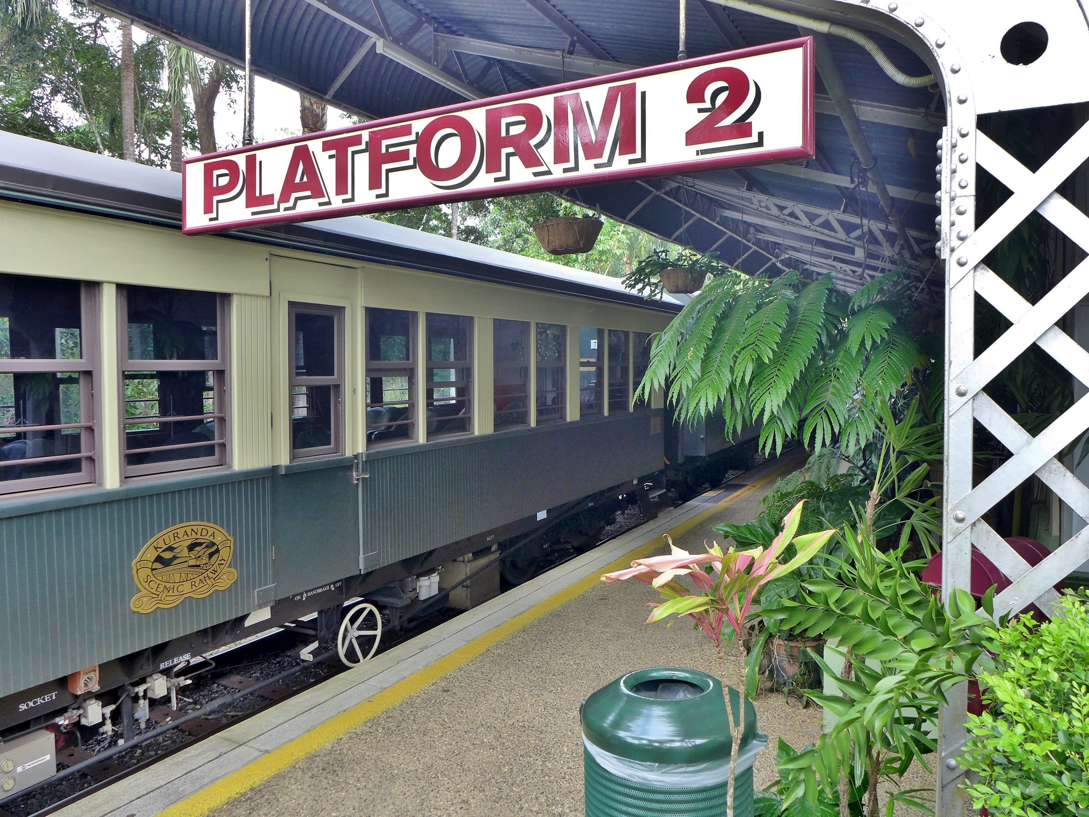 View of the Kuranda Scenic Railway station at Kuranda, Far North Queensland, Australia.